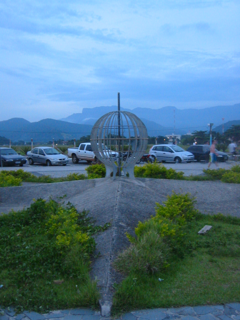 Crossing of Tropic of Capricorne in Brazil